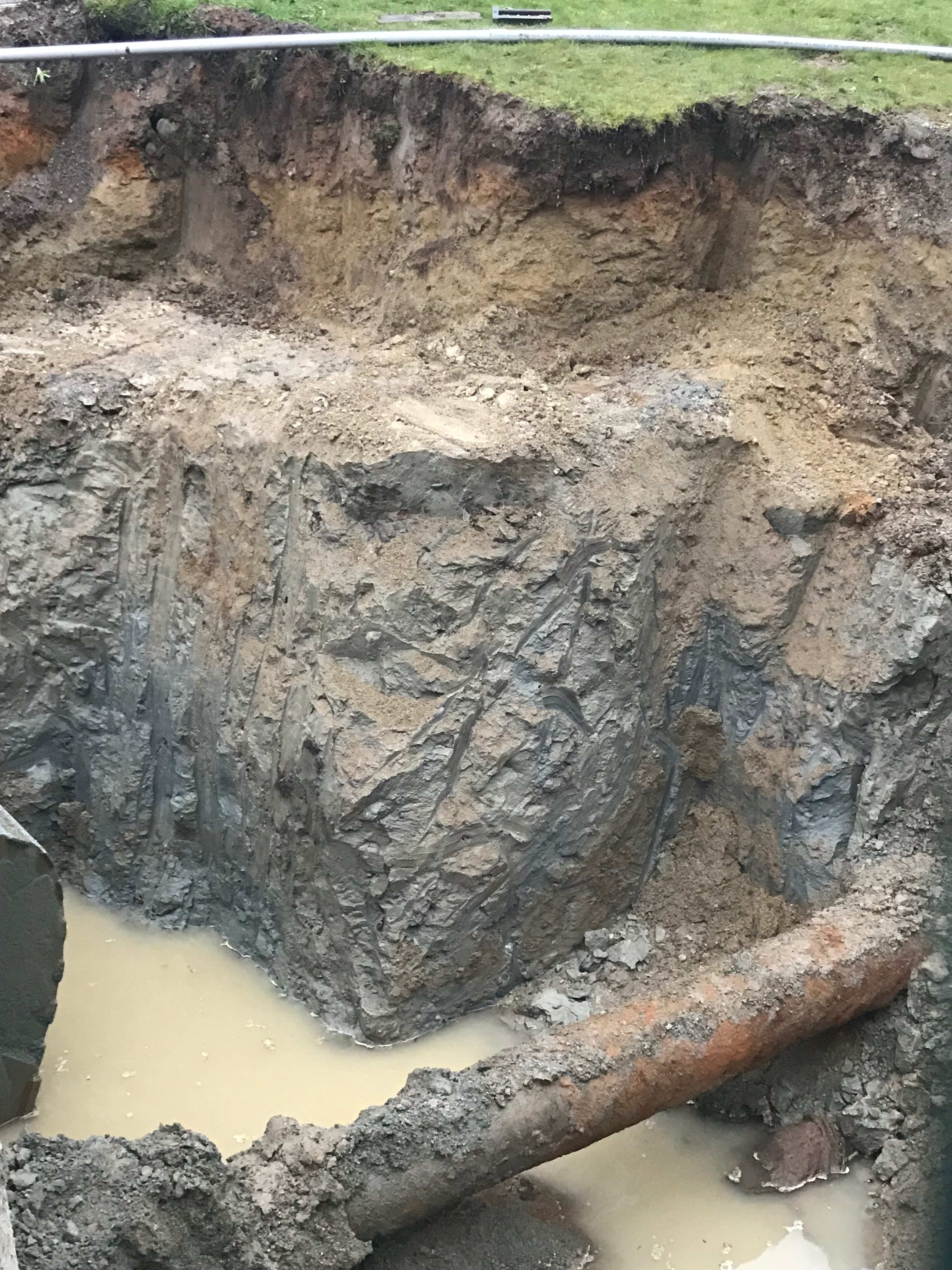 A soil section cut with heavy machinery during utility repairs